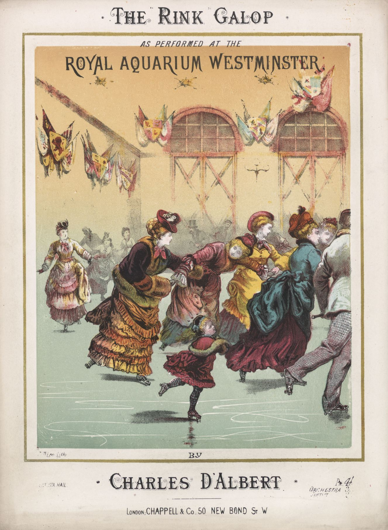 The Rink Gallop as performed at the Royal Aquarium Westminster, composed by Charles d’Albert (1809–1896), score, with an an illustration of the Royal Aquarium skating rink